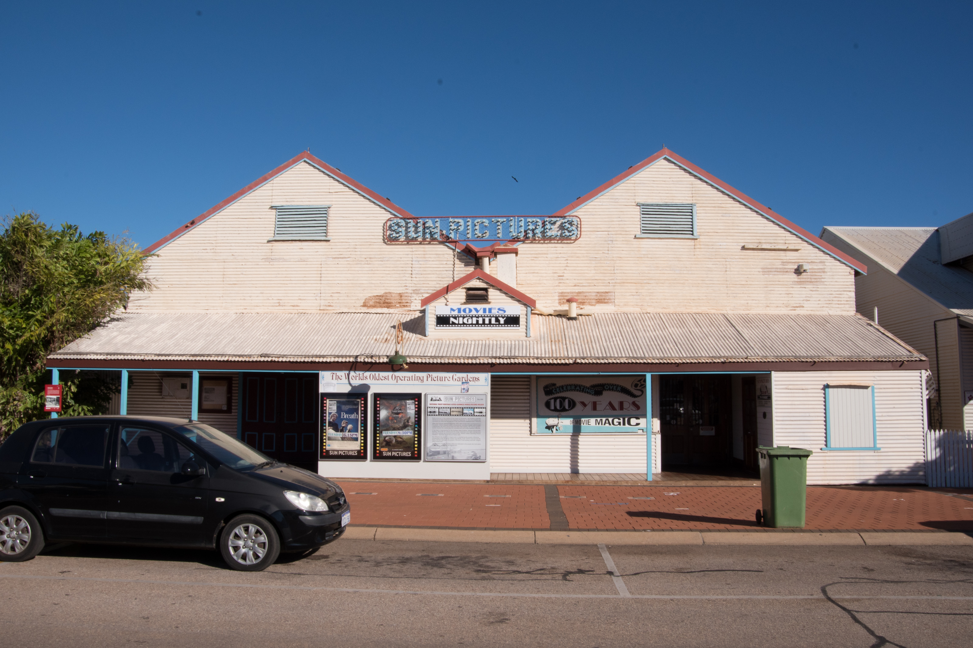 WMAU GLAM Peak Broome - Star Pictures